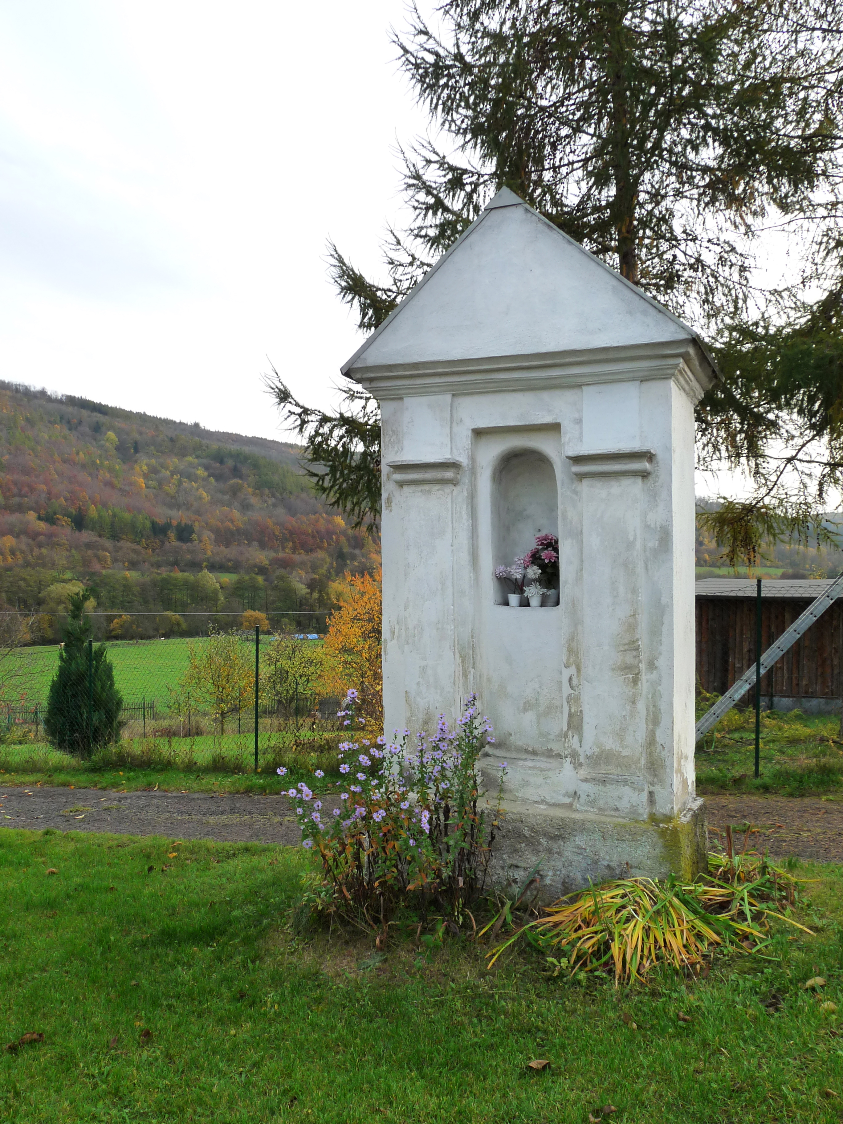 Wayside shrine in Lestkov near Klášterec nad Ohří, Chomutov District, Czech Republic